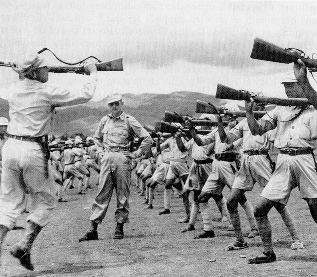 Chinese soldiers receive training in use of the bayonet. (U.S. Army Military History Institute)